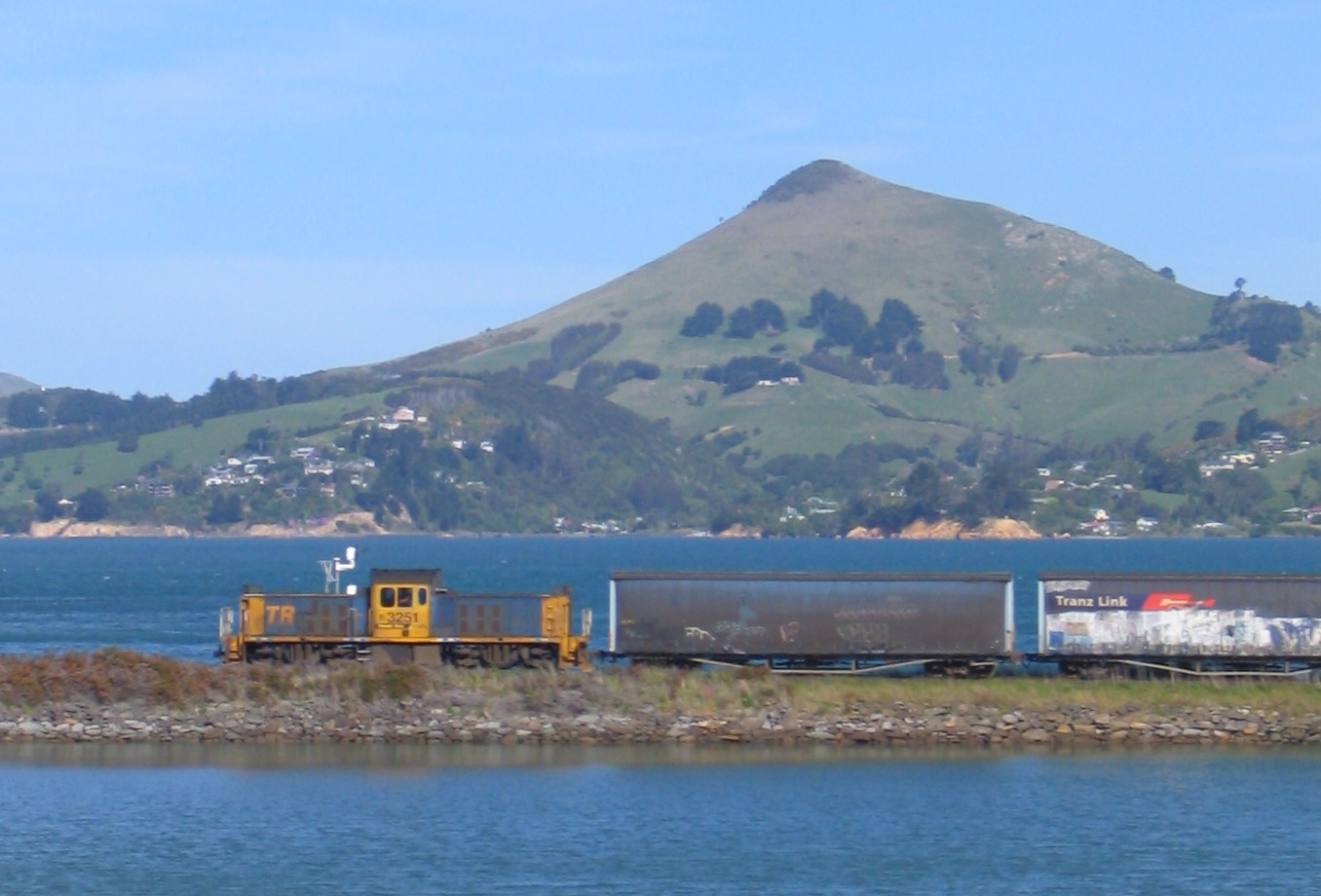 NZR DSG class 3251 pulling freight carriages northeast along the Main South Line / former section of the Port Chalmers Branch line. Harbour Cone on the Otago Peninsula visible in the background. Own photo from Blanket Bay, after chasing the train from Dunedin Railway Station.